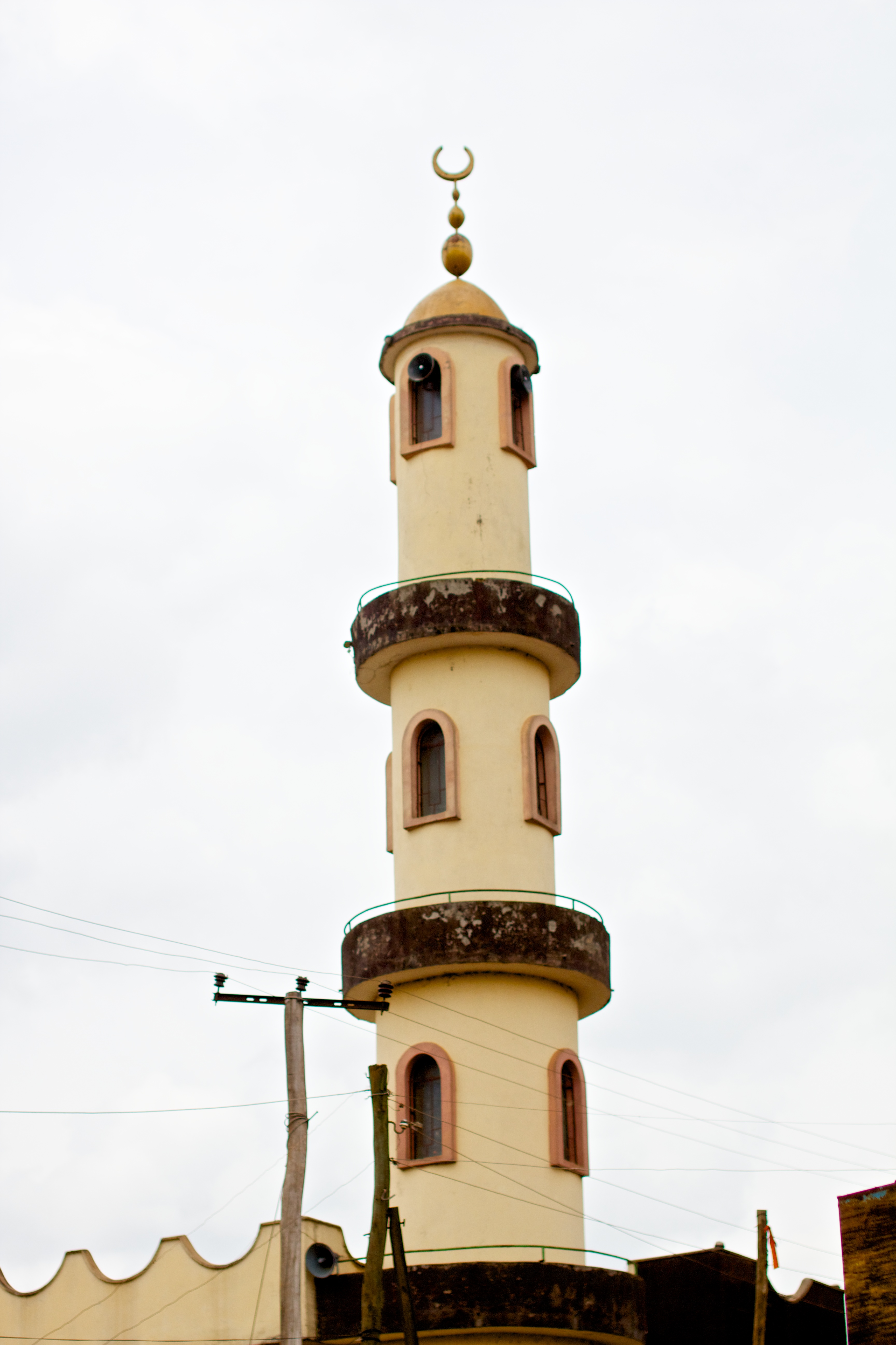 A mosque minaret in Jimma, the capital of the Oromia region in Ethiopia.